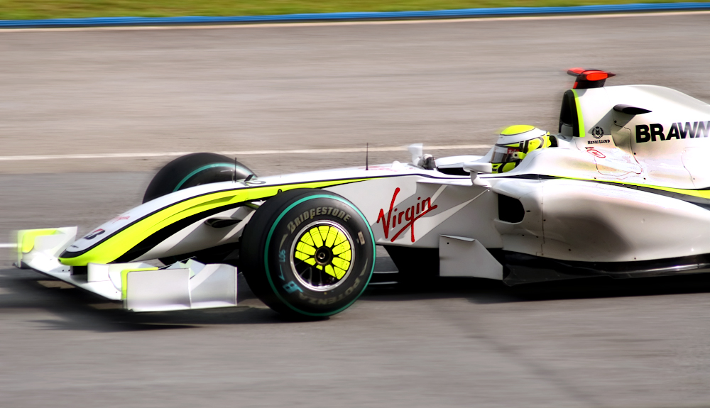 Jenson Button at 2009 Malaysian Grand Prix, Sepang, Malaysia.